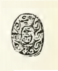 Picture of a scarab of pharaoh Nehesy. 14th dynasty, reign of Nehesy, Middle Kingdom/Second Intermediate Period.